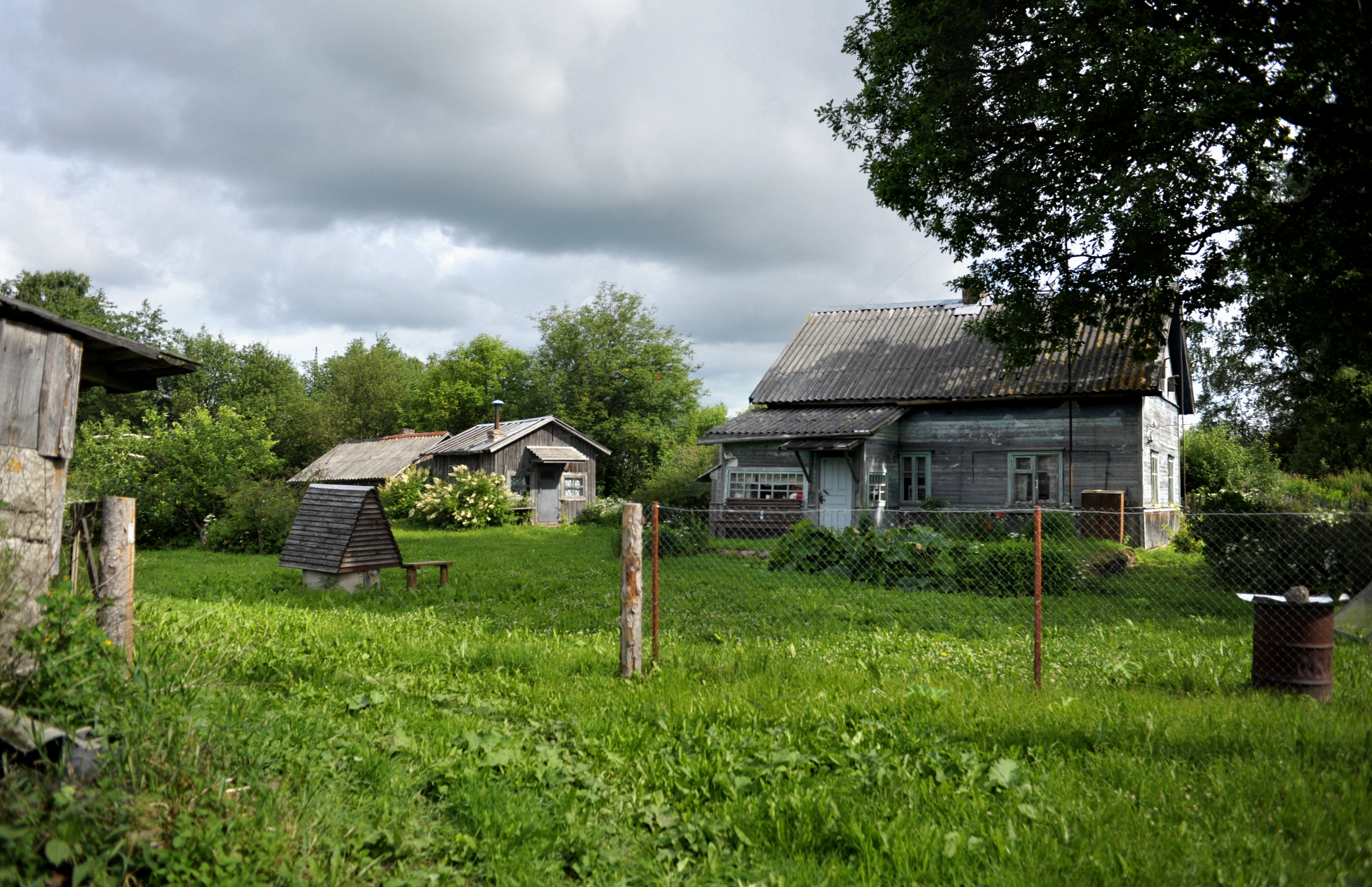 The southern village of Kaijala (Tokarevo) 14.7.2015